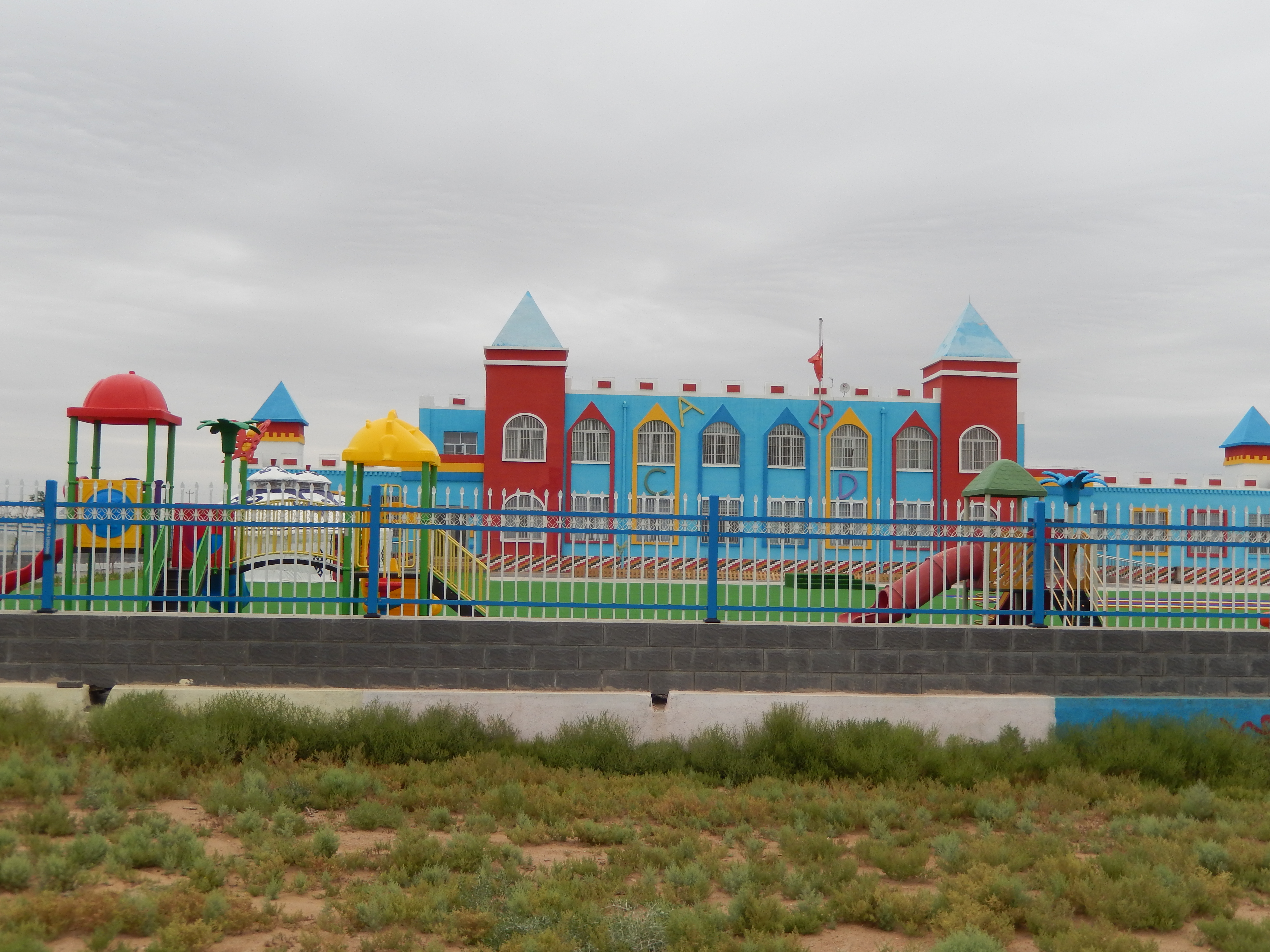 School at Wuliji Sumu (乌力吉苏木), Alxa Left Banner, Alxa League, Inner Mongolia, China.